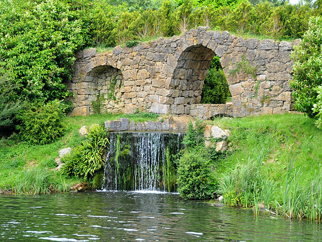 Cascade and Artificial Ruins folly, Stowe. Water flows over the Cascade from the Octagon Lake into the Eleven Acre Lake. The Artificial Ruin was originally built in the 1730s.